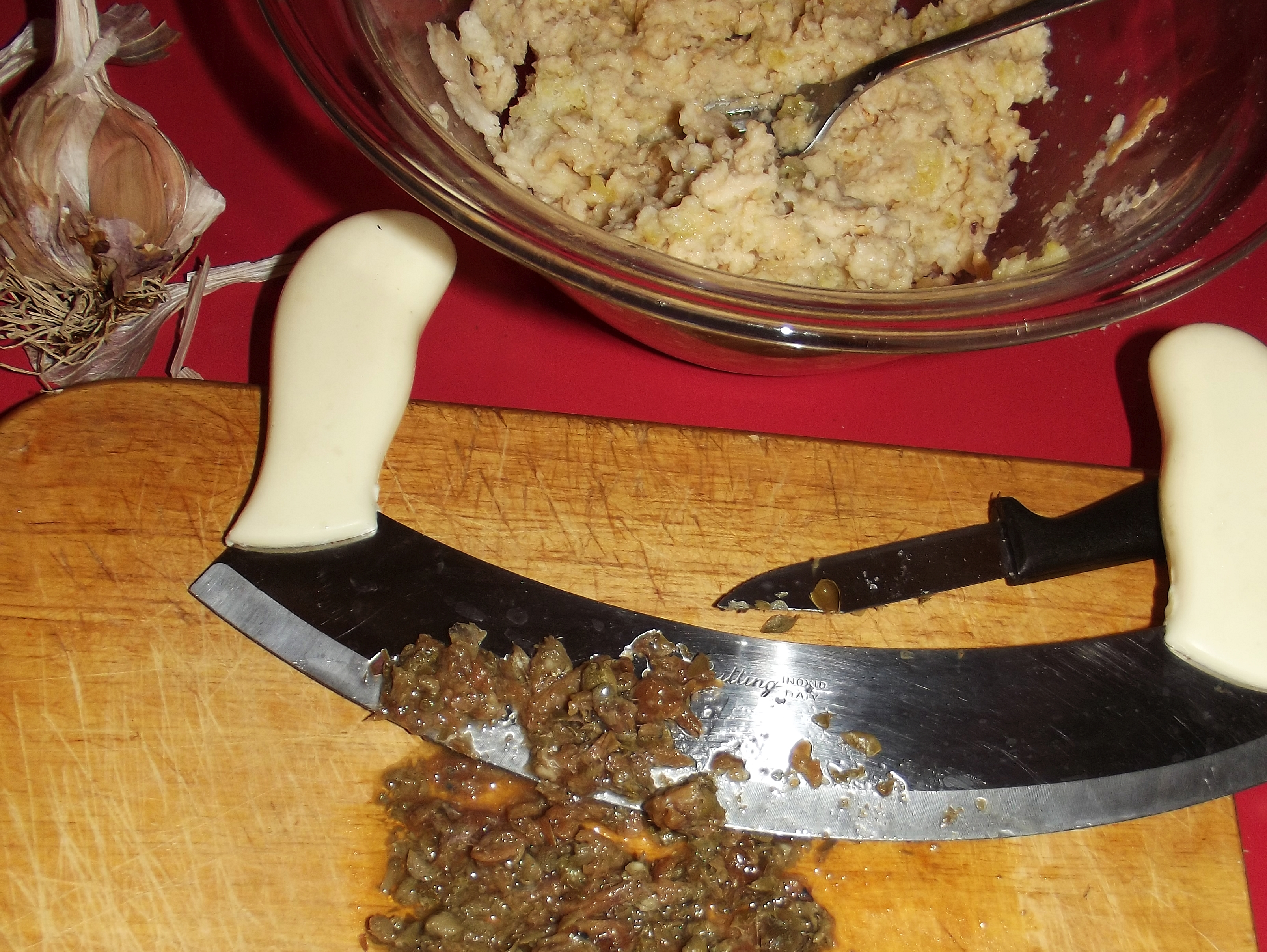 Bagnetto verde: capers and anchovy cutting